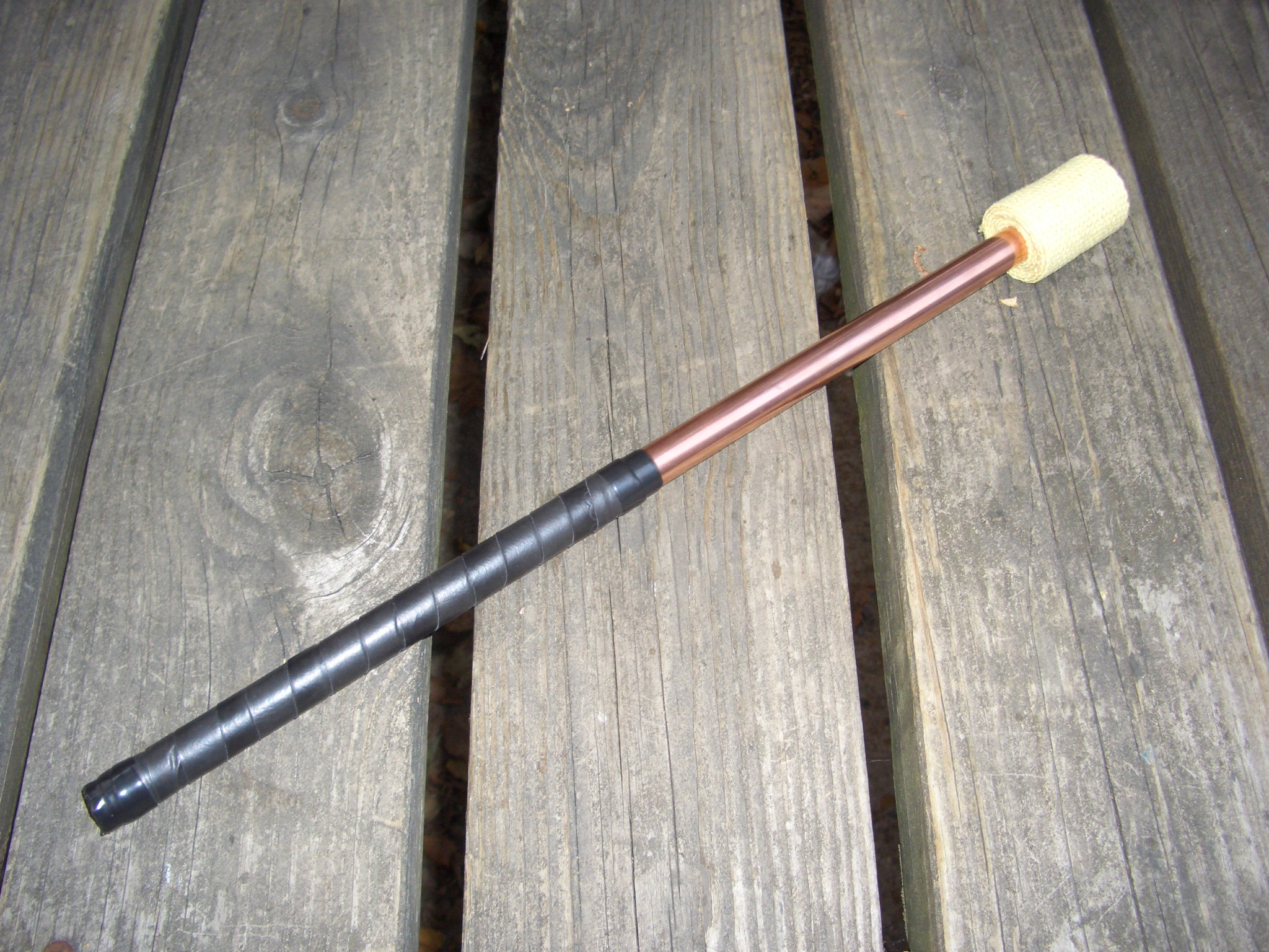 A simple fire breathing torch. This torch is made from copper tubing wrapped with two feet of 2" in length, 1/16" thick Kevlar-blend wicking material, and wrapped with electrical tape for gripping.